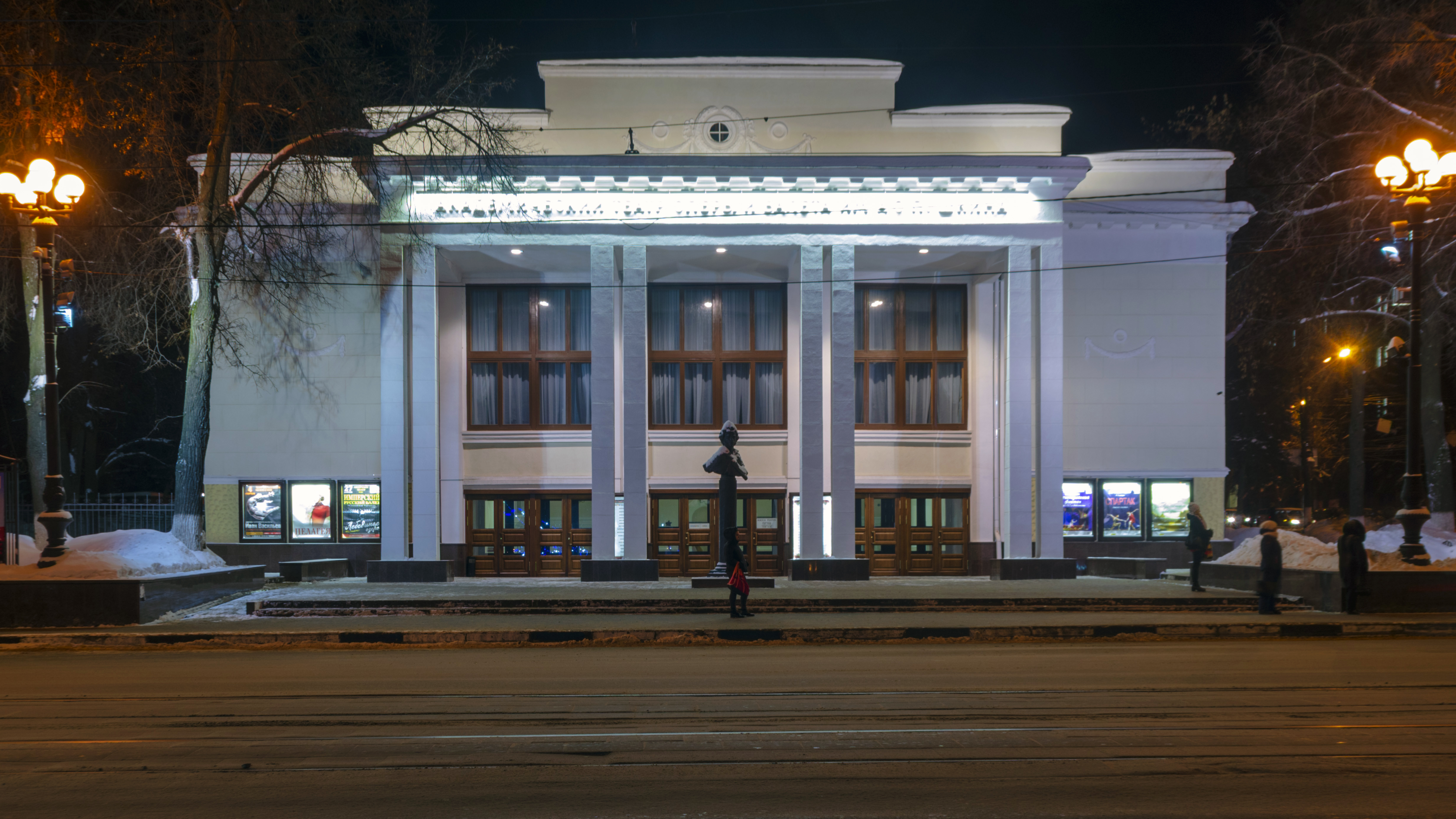 Opera House in Nizhny Novgorod at night